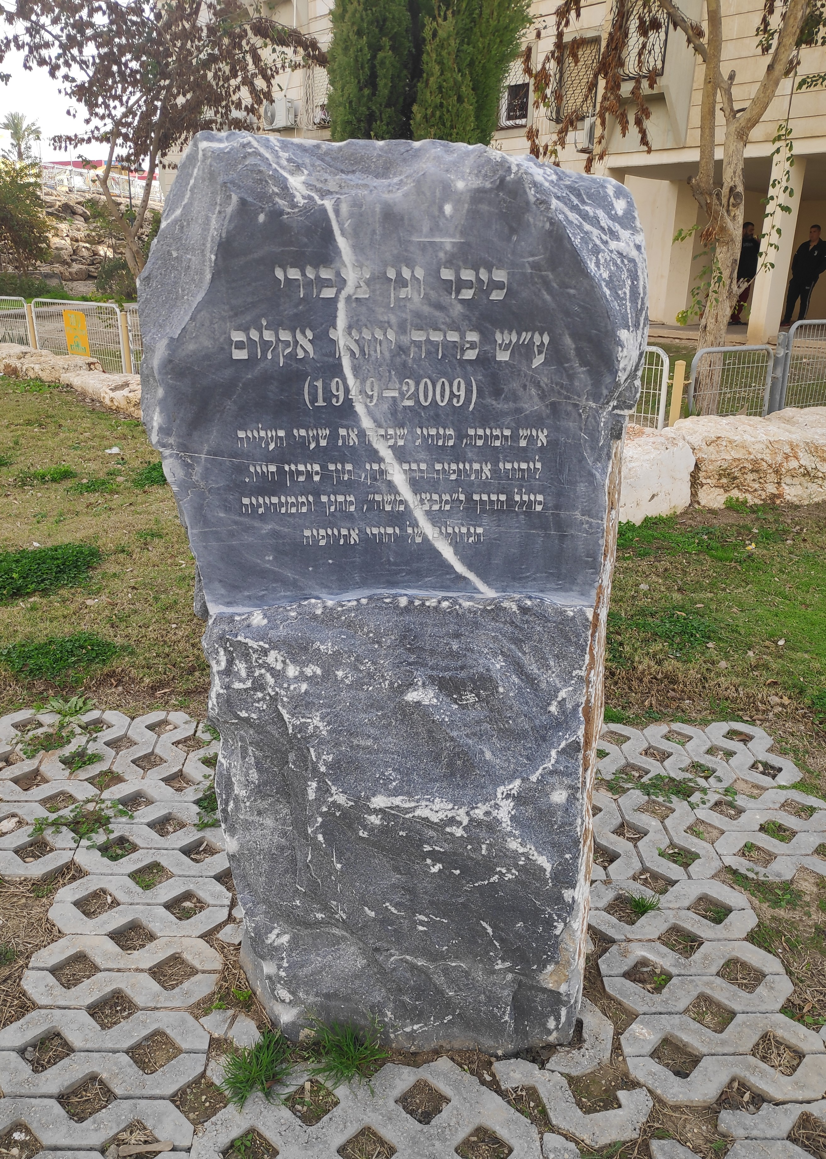 A memorial to Freda Aklum in Beersheba, Februery 2020